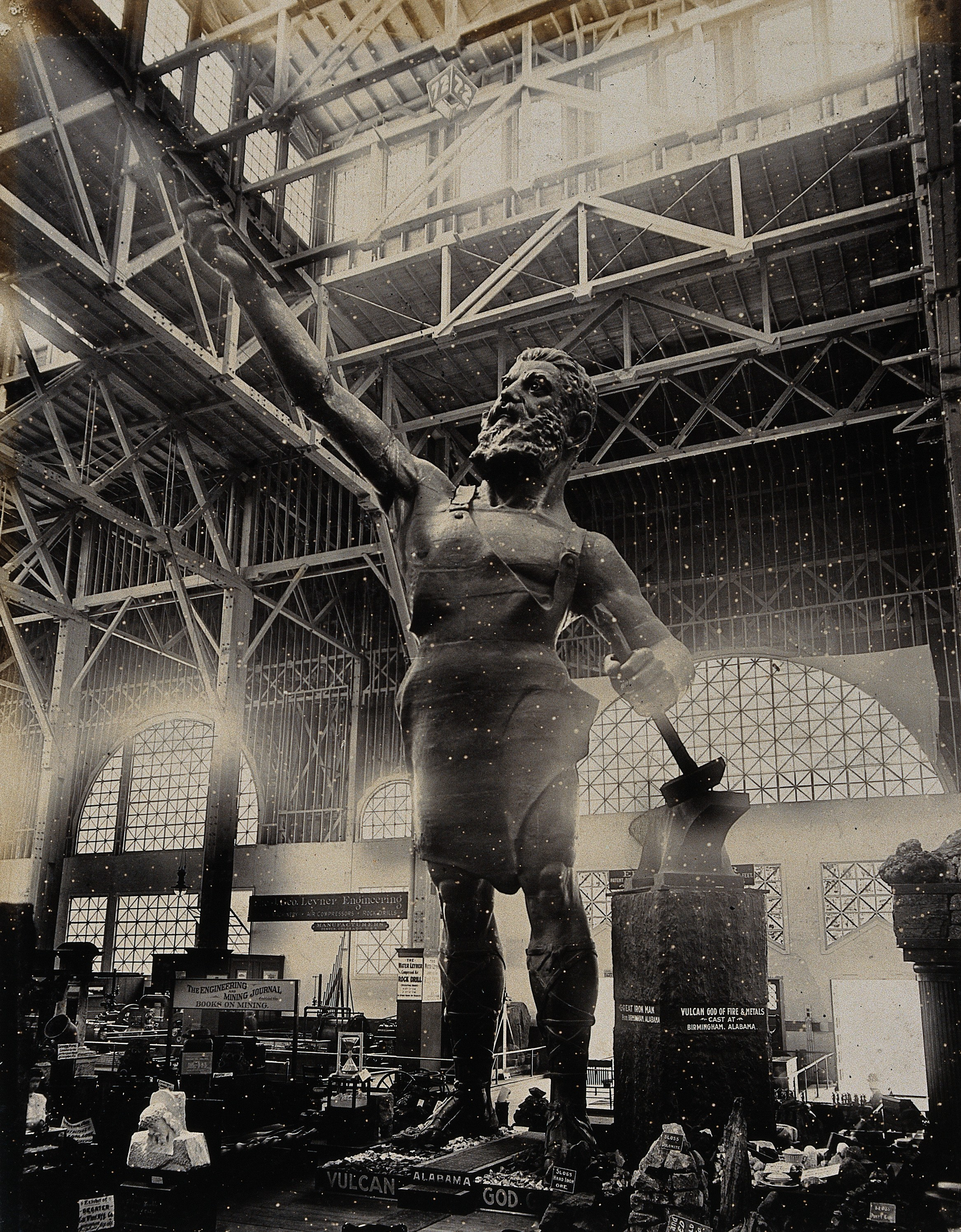 The 1904 World's Fair, St. Louis, Missouri: Vulcan, the Roman god of the forge: a 56 foot high statue in the Palace of Mines and Metallurgy. Cast iron statue by Giuseppe Moretti, ca. 1904 Iconographic Collections Keywords: God; Greek and Roman Mythology; Exhibition; Statue; Missouri; America